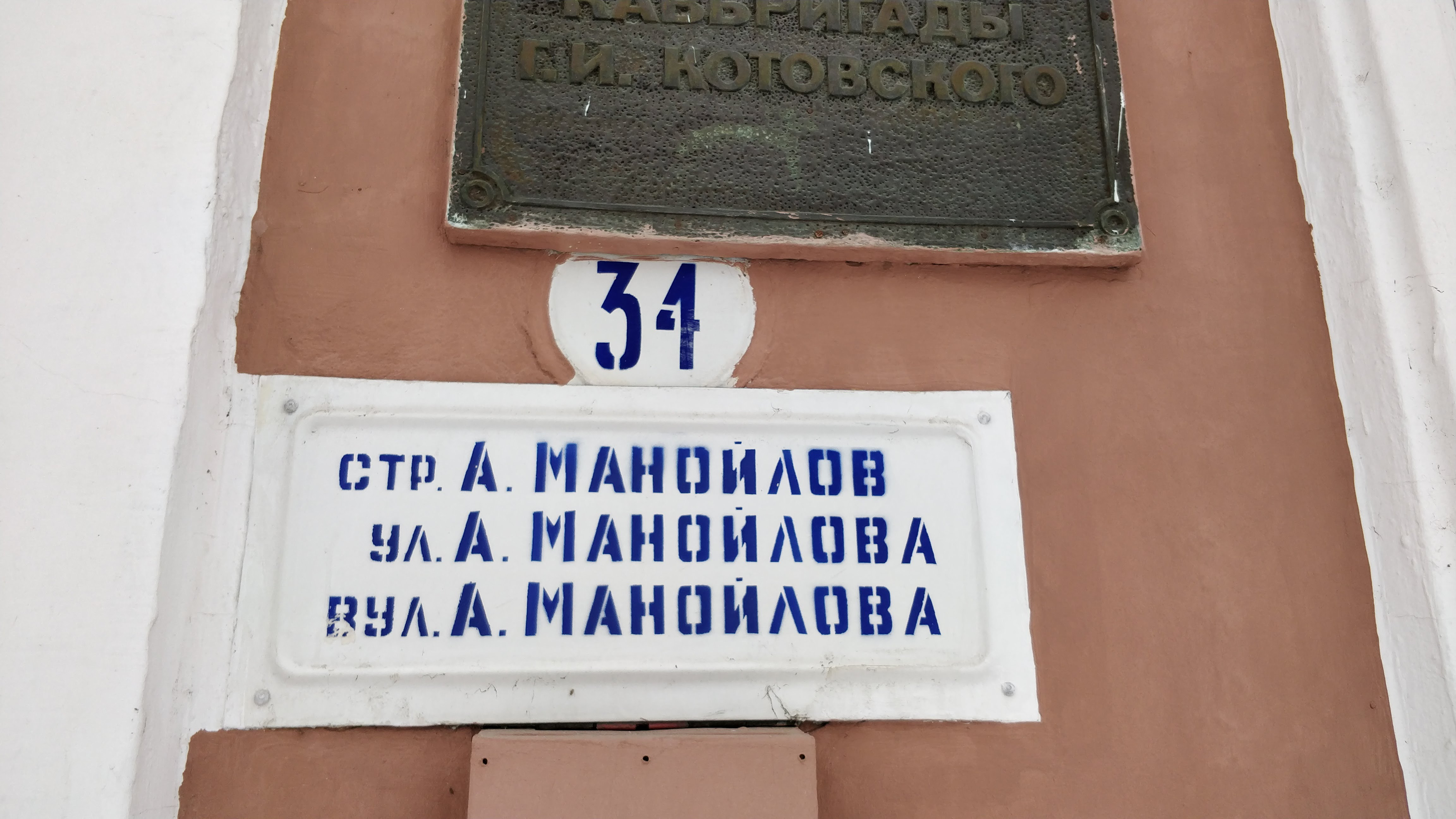 Street sign in Romanian, Russian and Ukrainian (but all in cyrillic), in Tiraspol, Transnistria